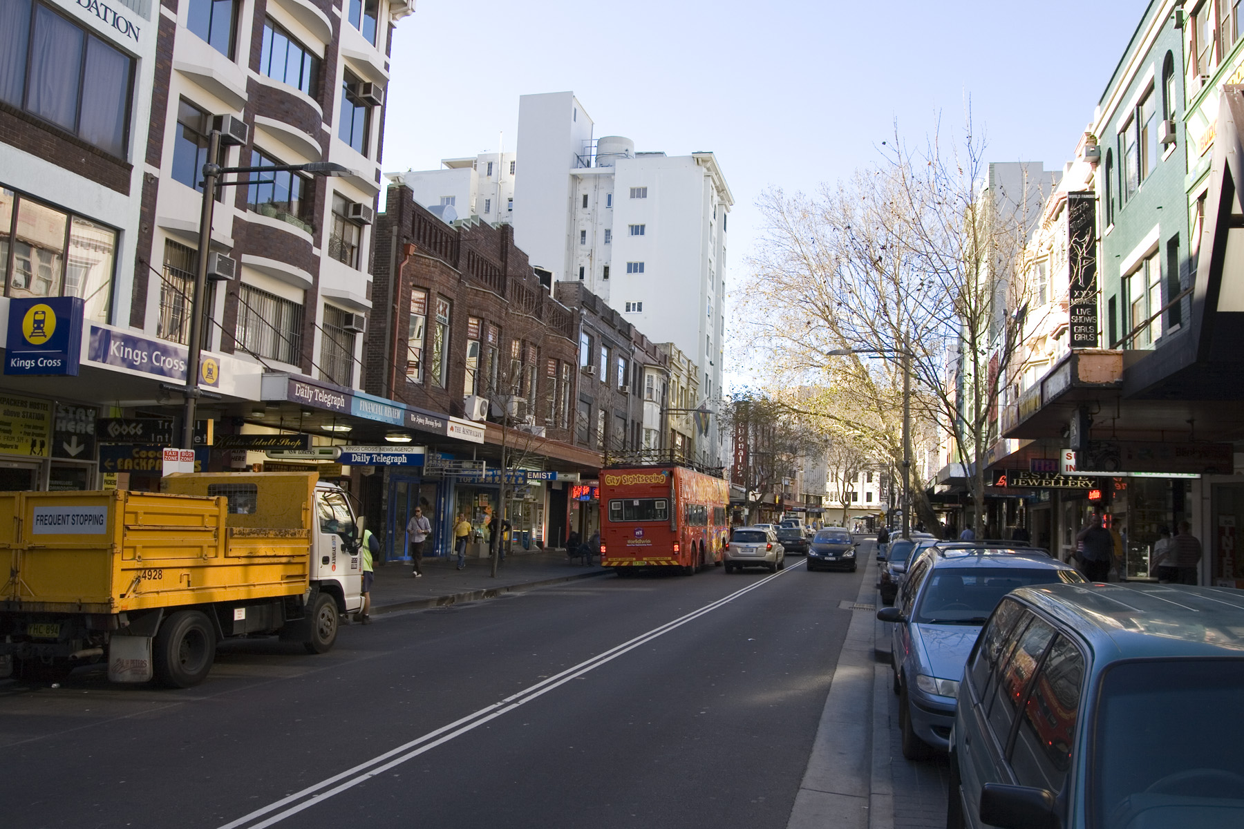 Darlinghurst Road, near King Cross Station, Sydney